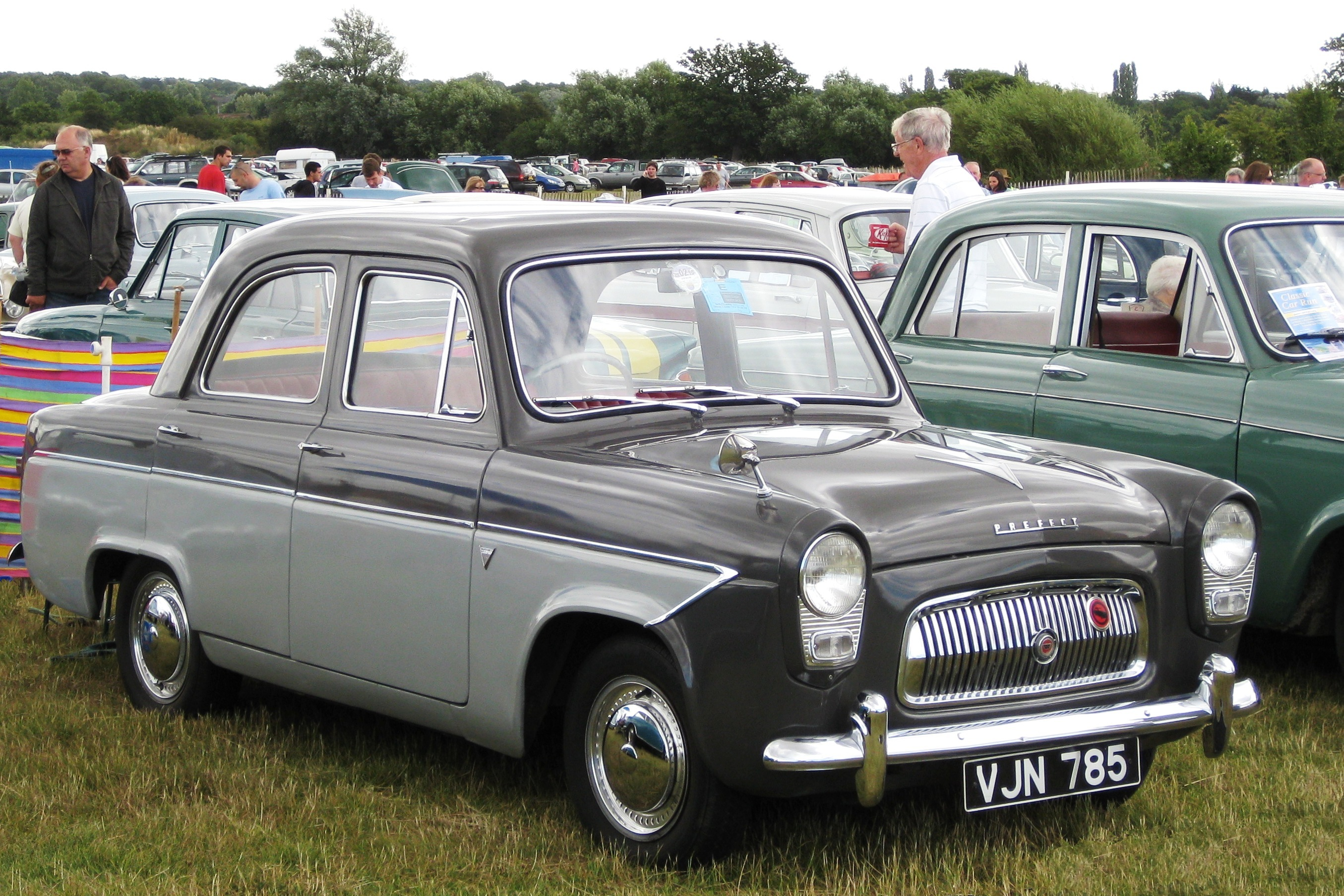 Ford Prefect 997cc